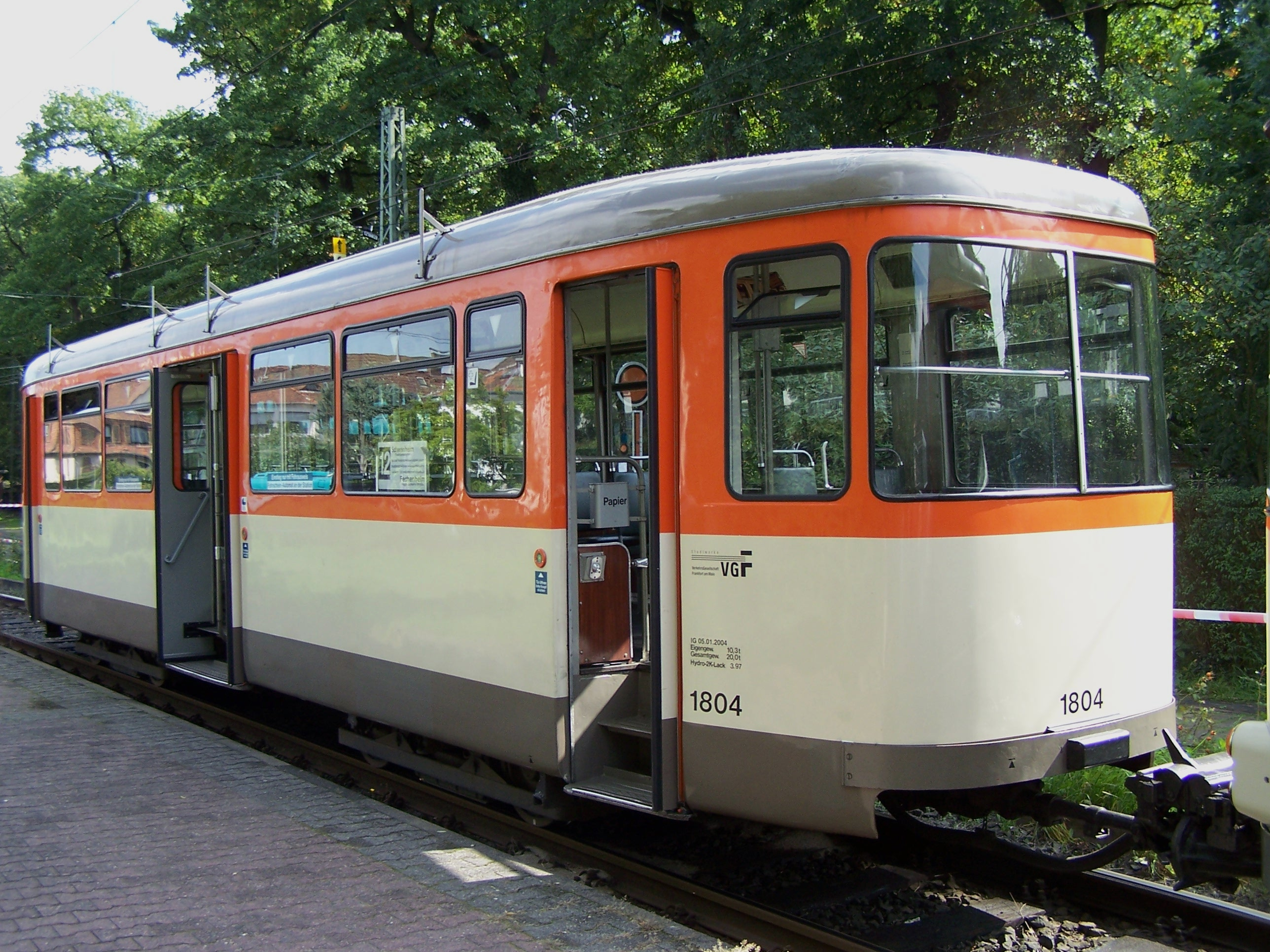 outside view of m-type tram trailer 1804 at the Frankfurt on Main Transport Museum in Frankfurt am Main-Schwanheim